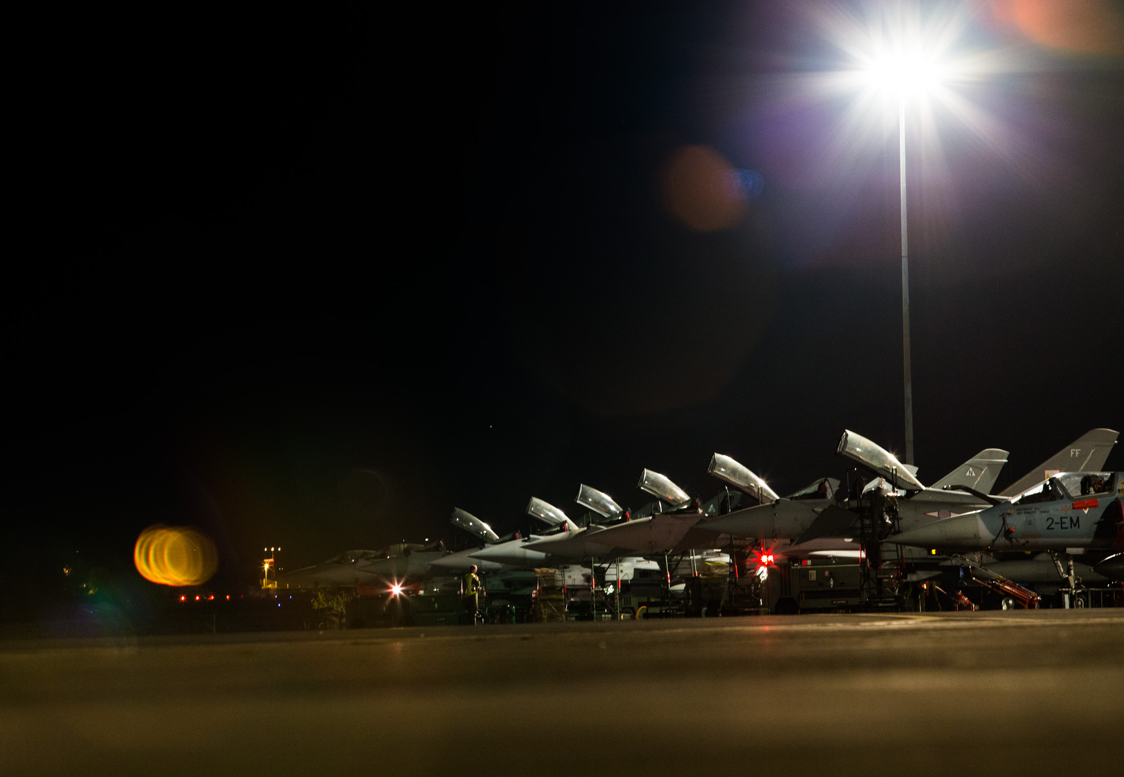 In the tarmac before night flight, at Albacete AFB, Spain, during Trident Juncture 15. Photo: Cynthia Vernat, HQ AIRCOM PAO.